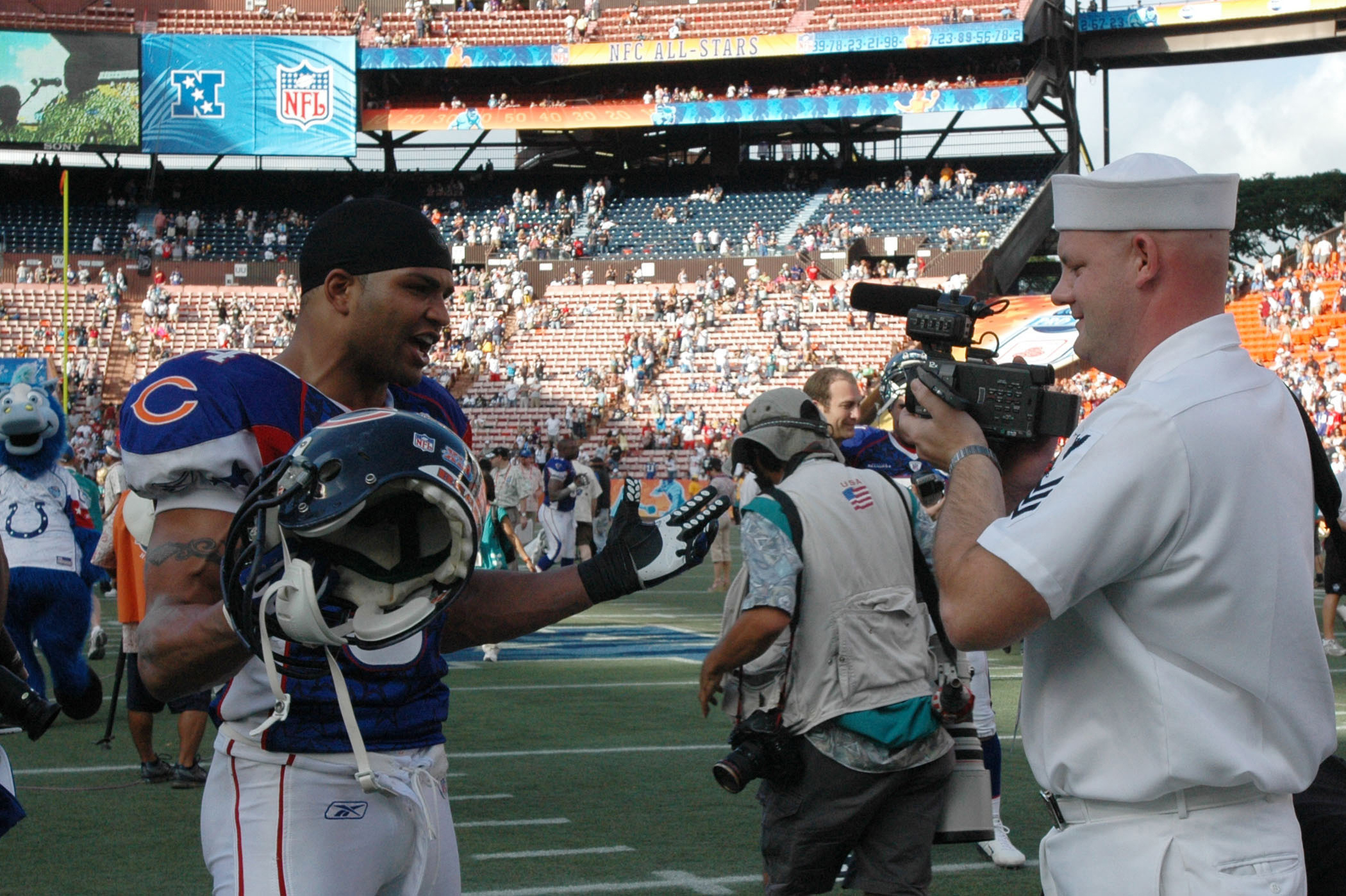 Brendon Ayanbadejo, of the Chicago Bears, gives a shout out to all the troops serving overseas during an interview by U.S. Navy Mass Communication Specialist 1st Class Keith Jones at the annual Pro Bowl half time show at Aloha Stadium in Honolulu, Hawaii , Feb. 10, 2007. The Pro Bowl, which features All-Star players from the National Football Conference and the American Football Conference, is in its 28th consecutive year. (U.S. Navy photo by Chief Mass Communication Specialist Don Bray) (Released) (Released to Public)